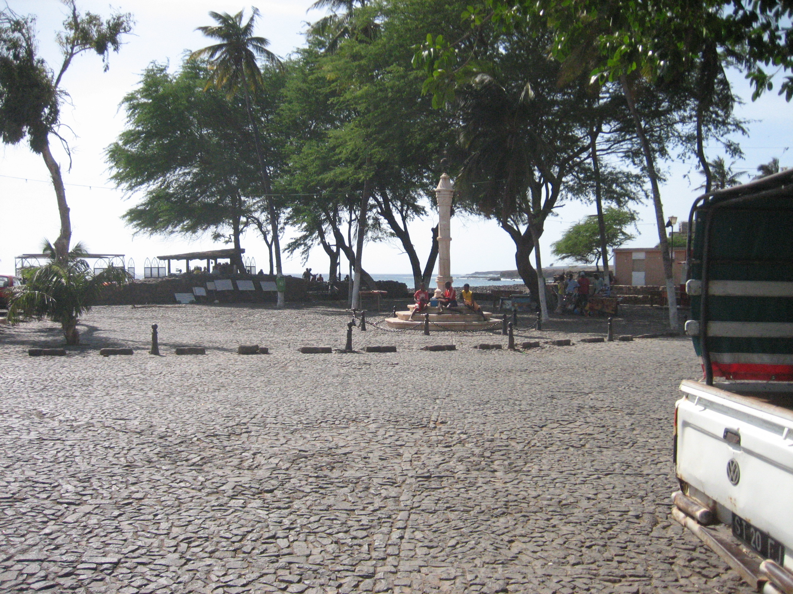 The Pelourinho of Cidade Velha on Santiago, Cape Verde